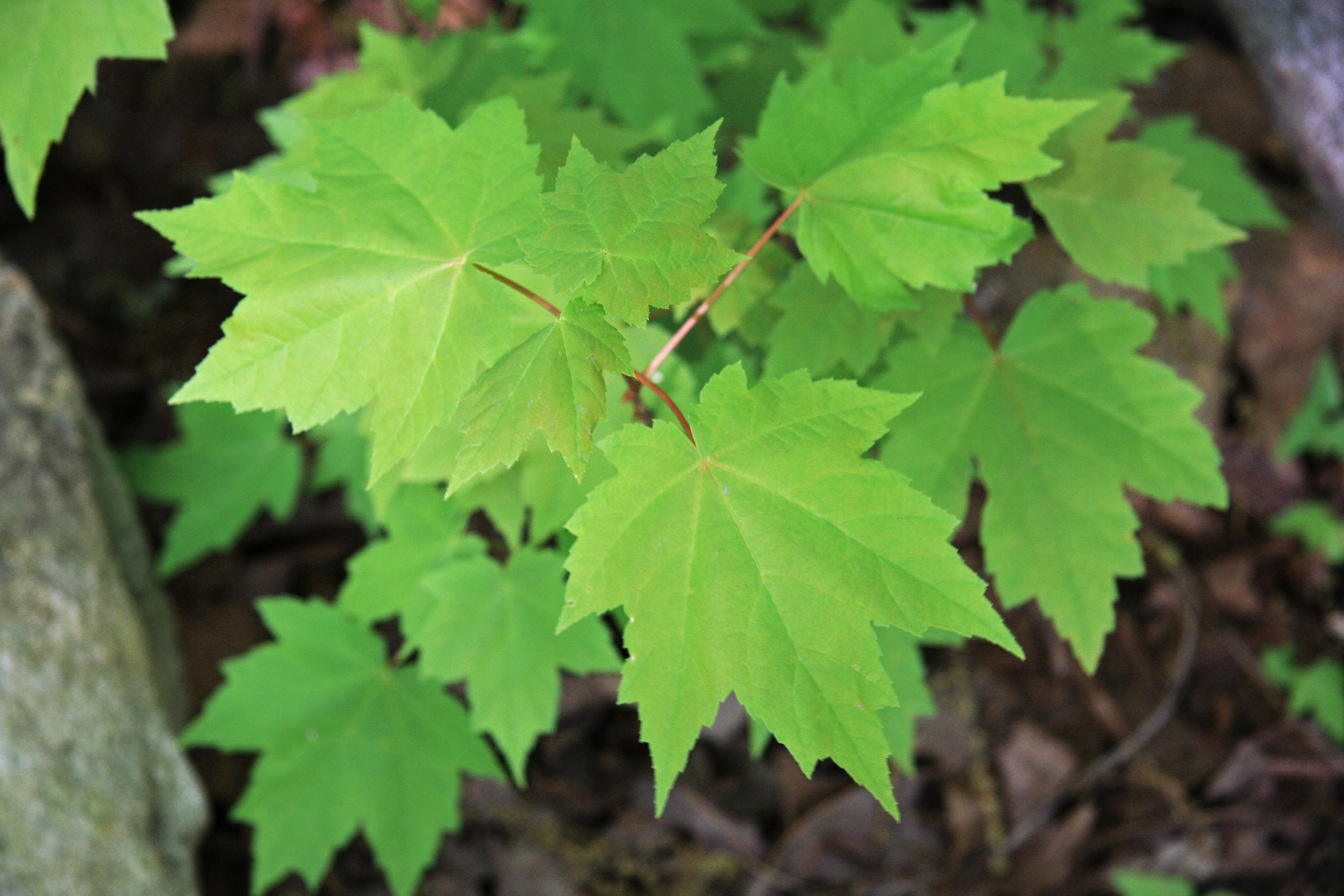 Red maple (Acer rubrum) young leaves. Duke Forest Korstian Division, Durham, North Carolina USA.